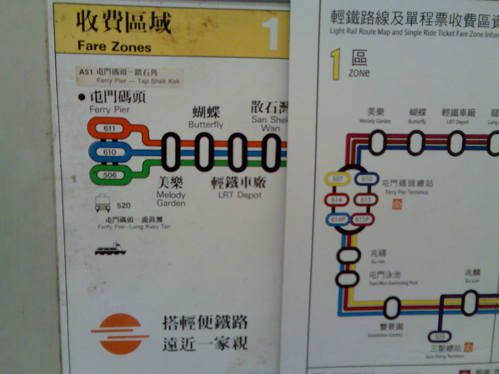 Upload to zh wikipedia